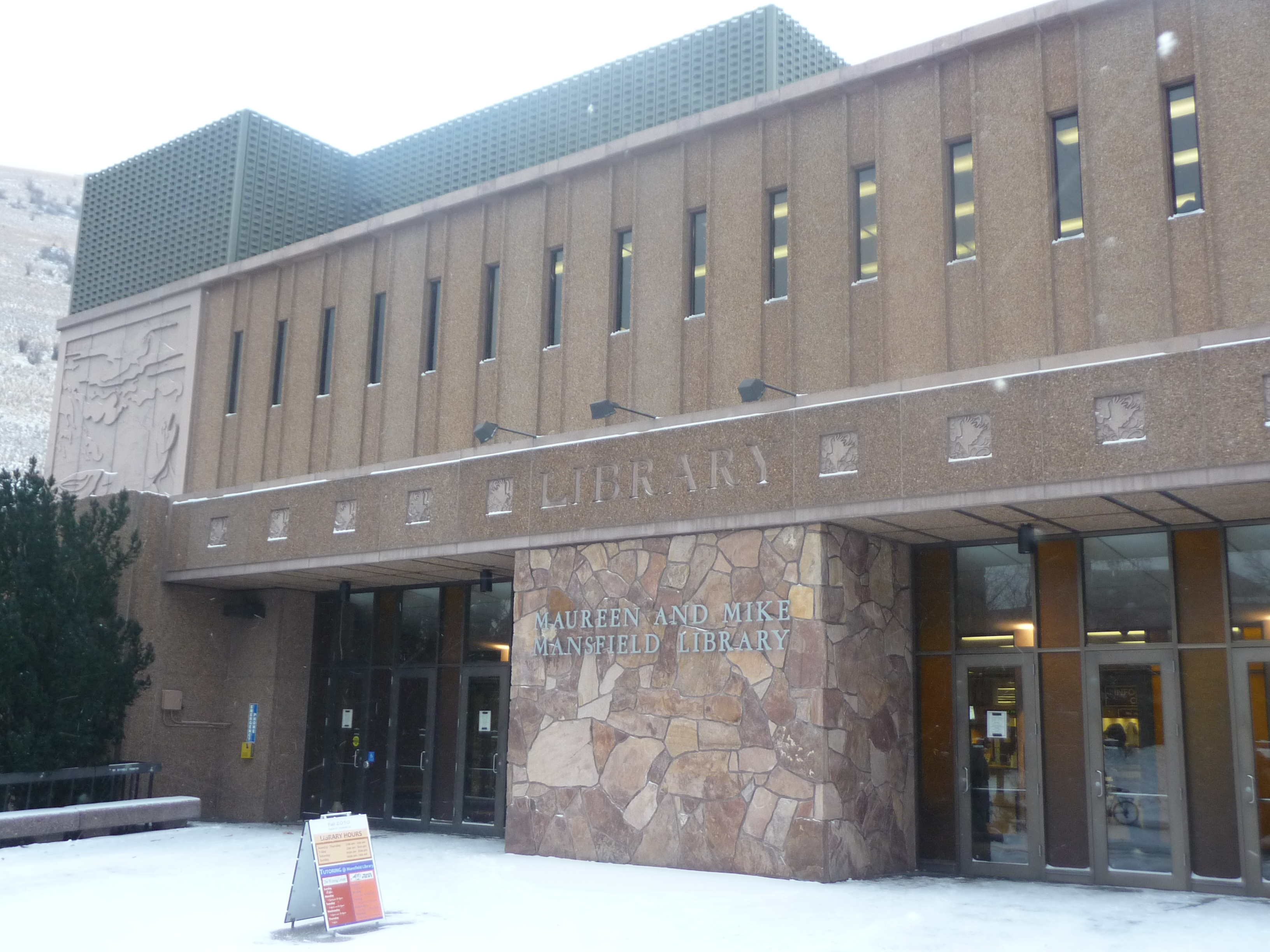 A view of the entrance to the Mansfield Library on the north side of the building.